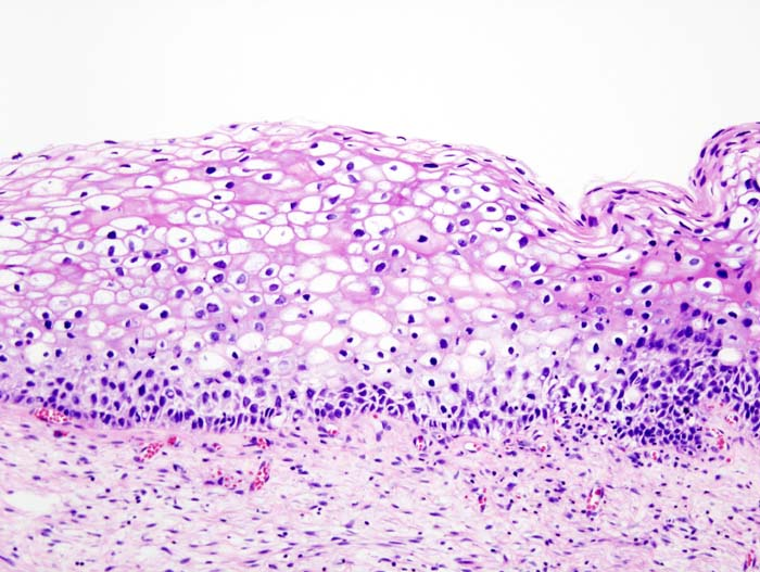 Histopathologic image of cervical intraepithelial neoplasia with koilocytosis. H & E stain.